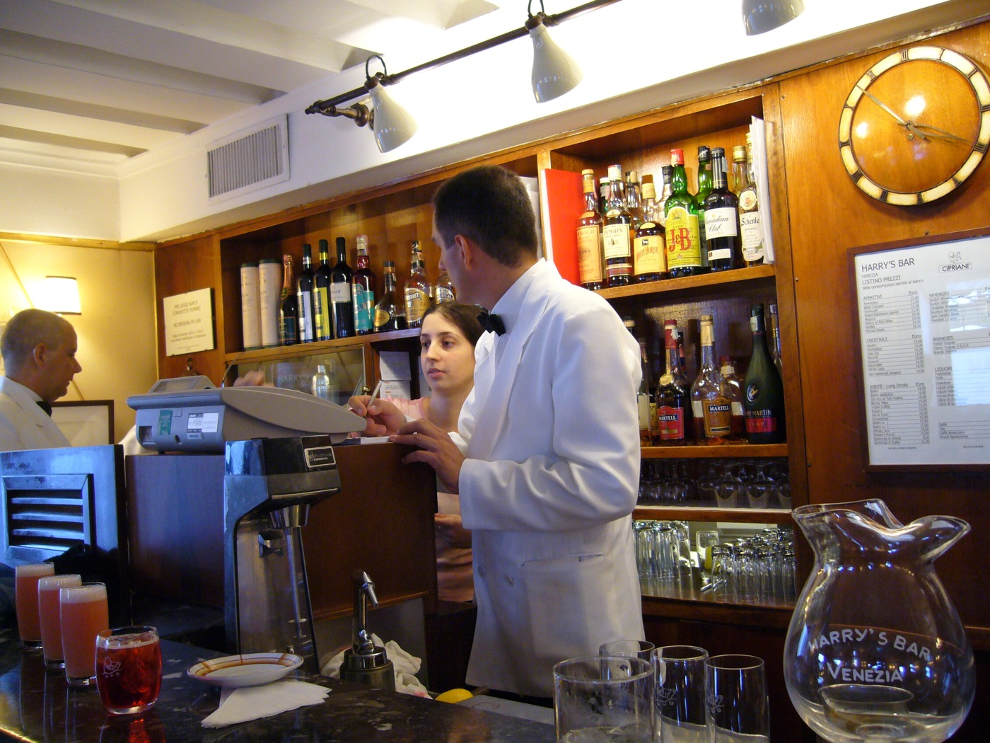 Harry's Bar interior. Venice Italy.